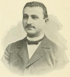 portrait of Hebrew writer Yesha'ayahu Bershadski, circa 1895